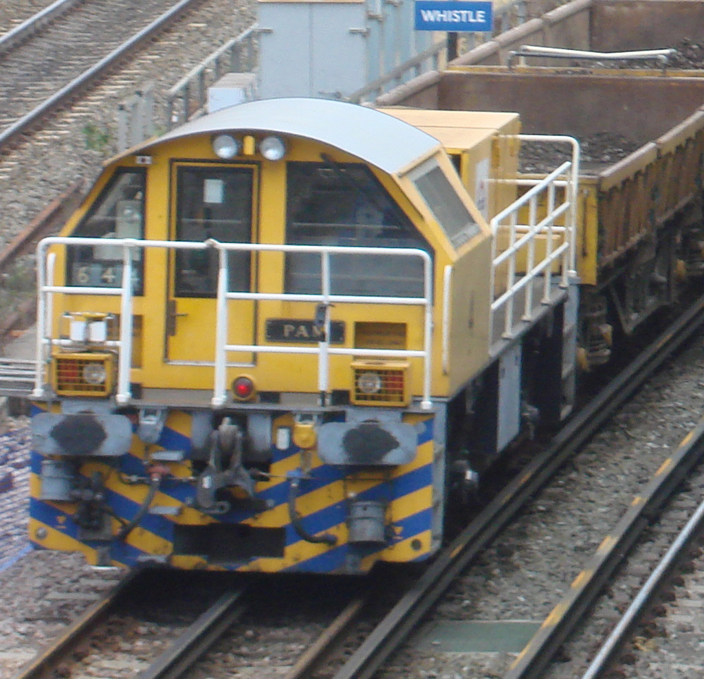 tube-gauge Schoma diesel loco LUL No.4 "PAM" built for use on the Jubilee line extention project with exhaust and fitted with exhaust scrubber, seen here on a stationary engineering train on the Hammersmith and City line near to Westbourne park tube station